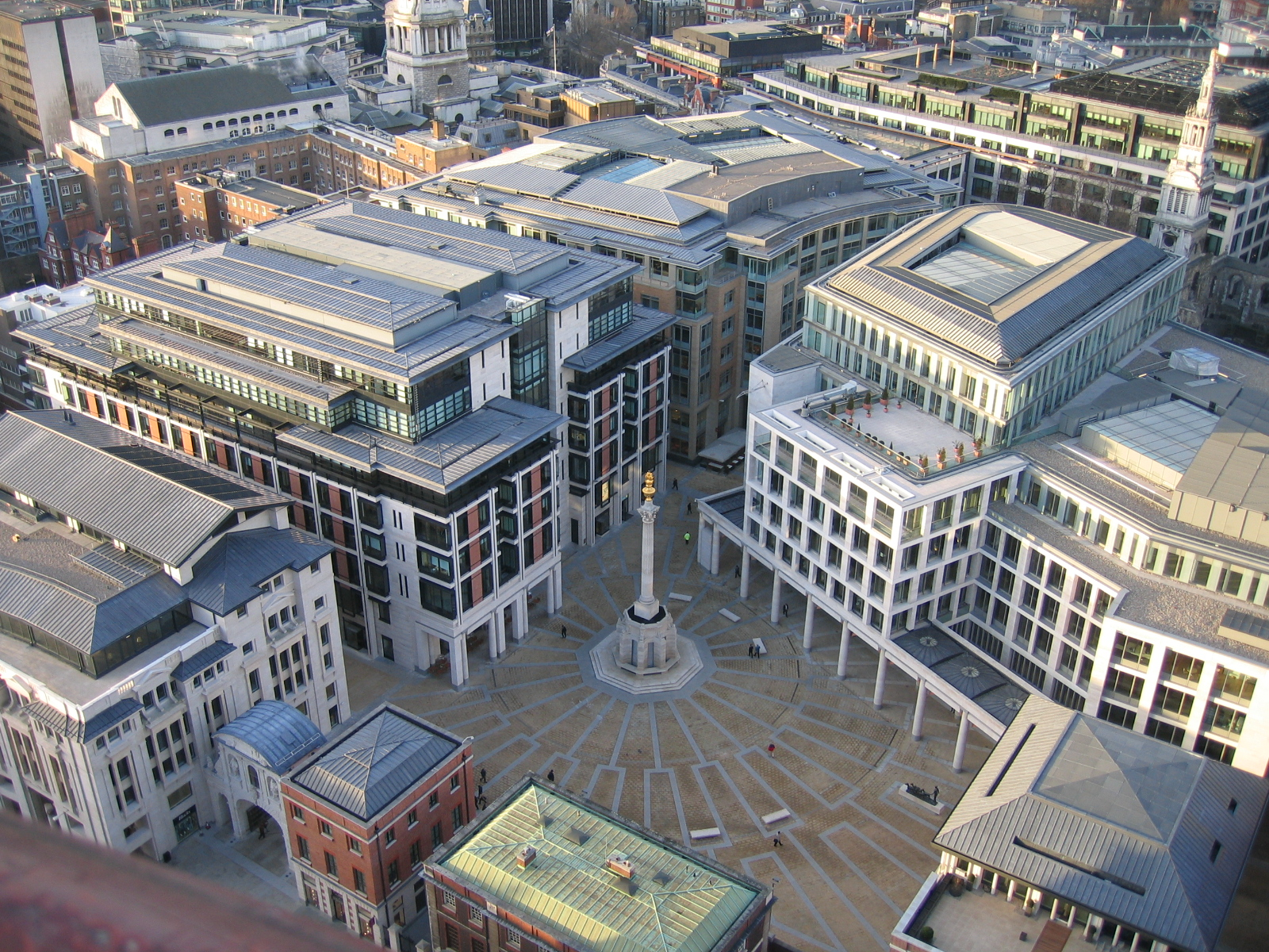 A view from the south of Paternoster Square in London, England from the top viewing deck of St. Paul's Cathedral. Paternoster Square, City of London, England – the new home of the London Stock Exchange and next door to St Paul's Cathedral.